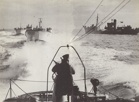 6th MGB Flotilla, Robert Peverell Hichens' MGB 64 leading. The aft mounted 20mm Oerlikon position can be easily seen.